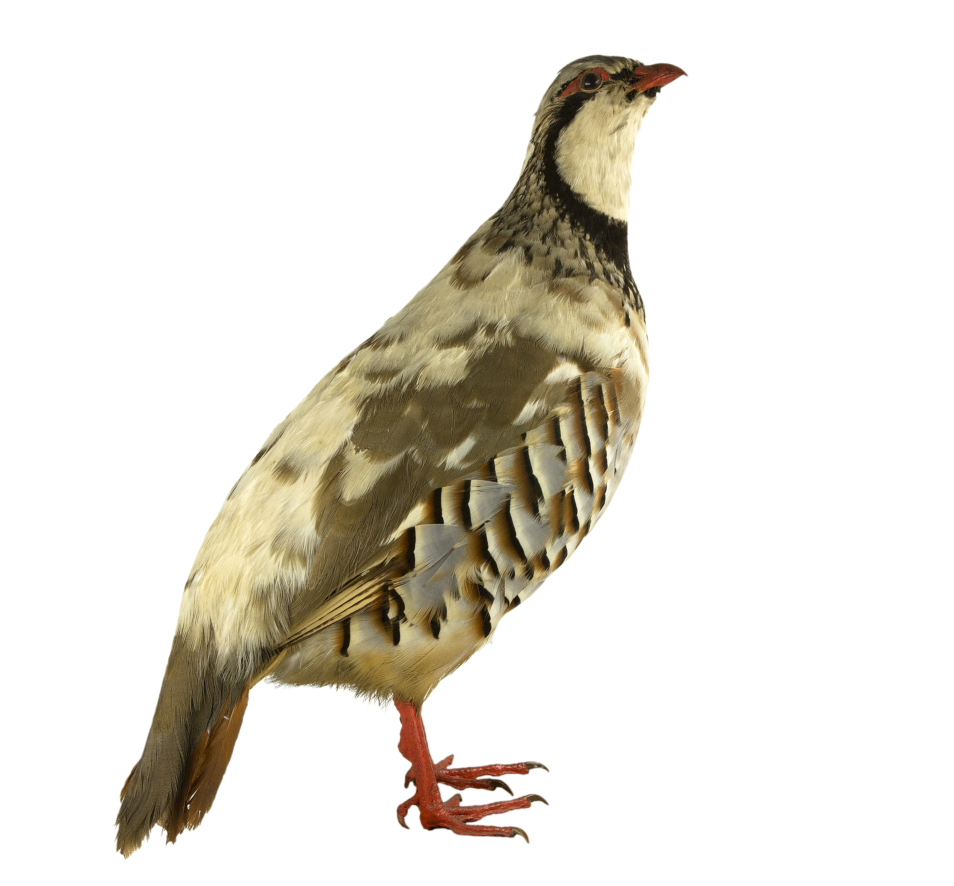 taxidermied specimen, red-legged partridge, size : 18 x 13 x 27 cm